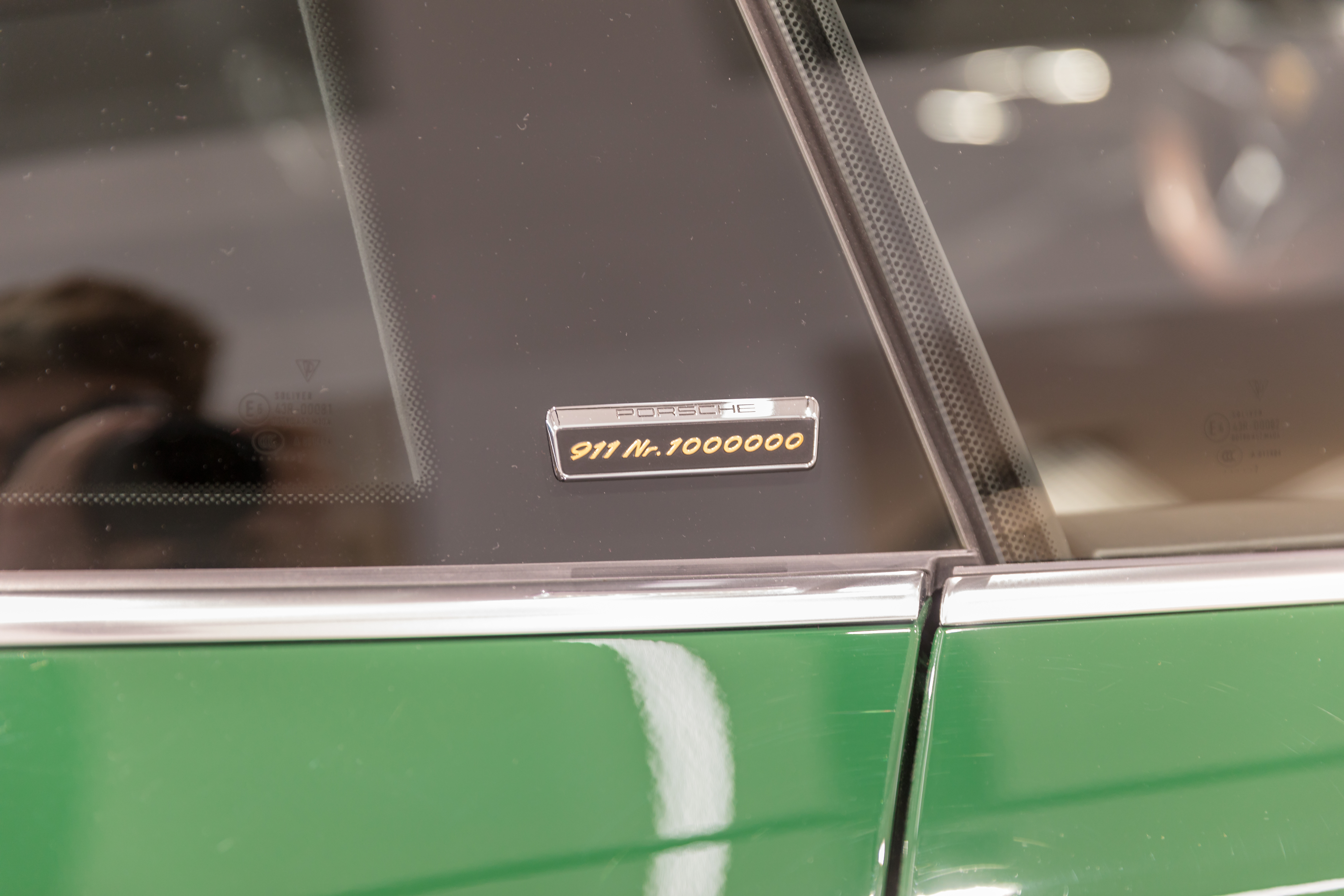 70 Years Porsche, DRIVE. Volkswagen Group Forum